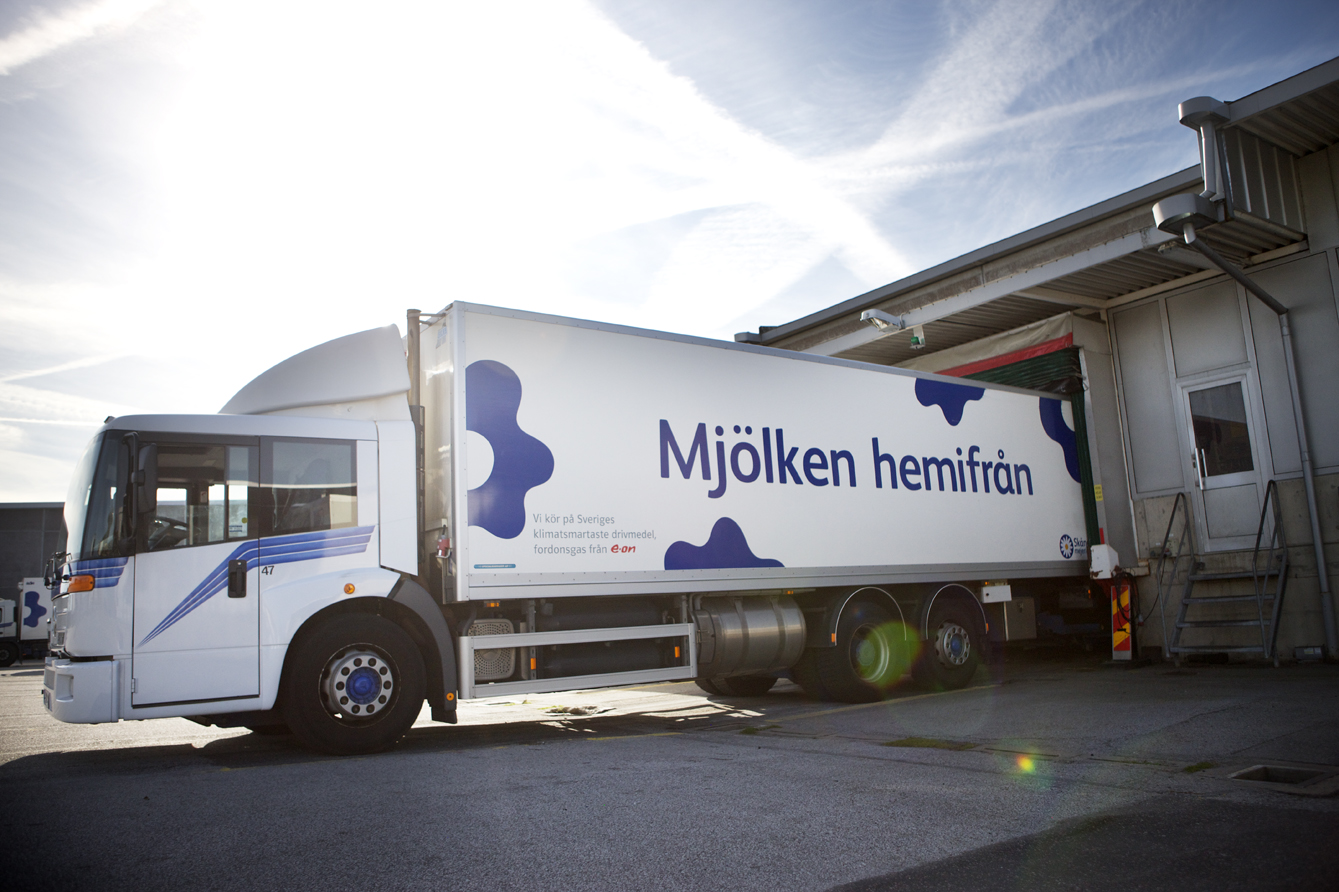 A Skånemejerier truck with milk